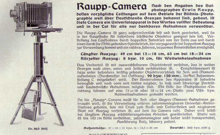 Raupp-Camera - contemporary advertisement